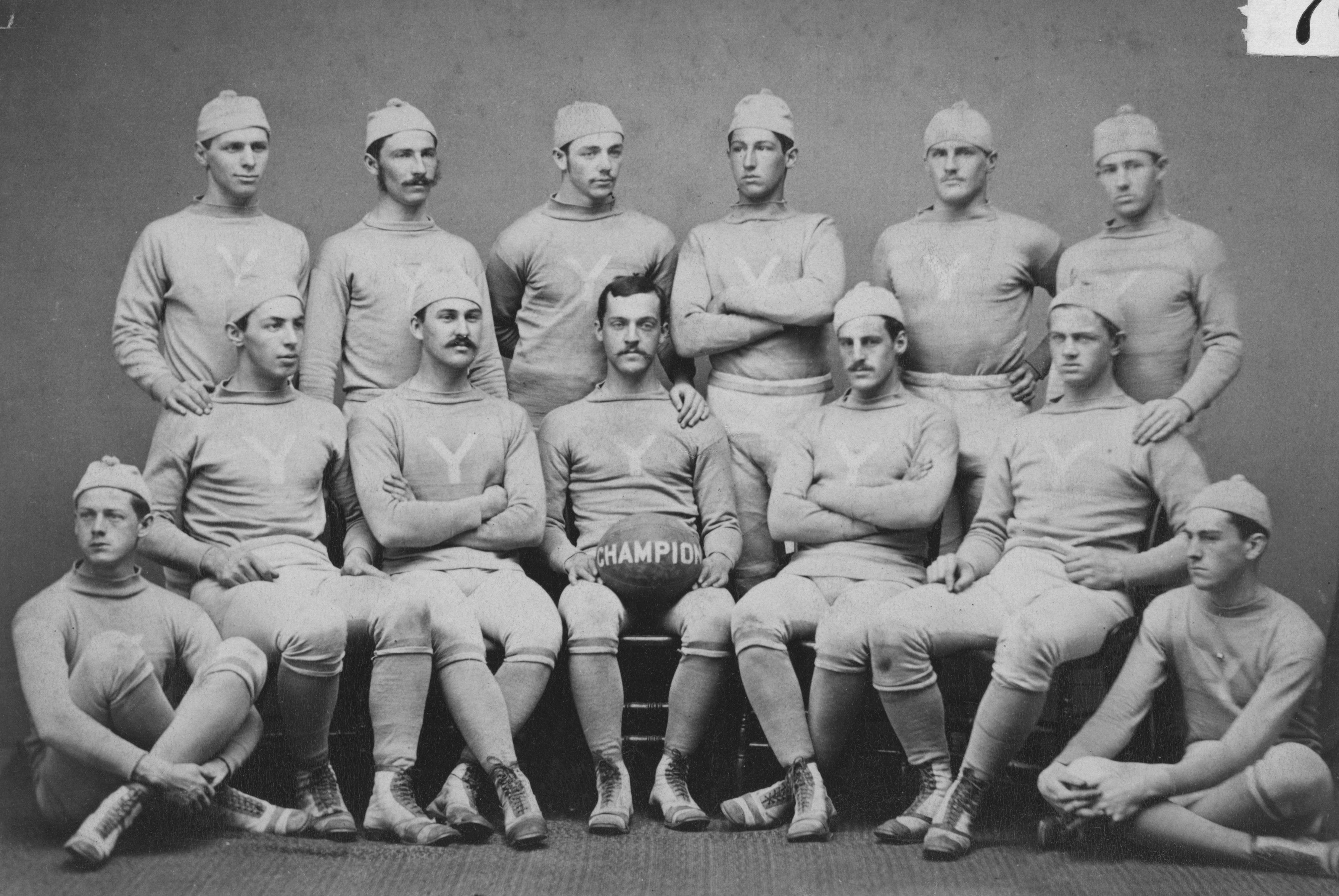 An earlier Yale Bulldogs football team.